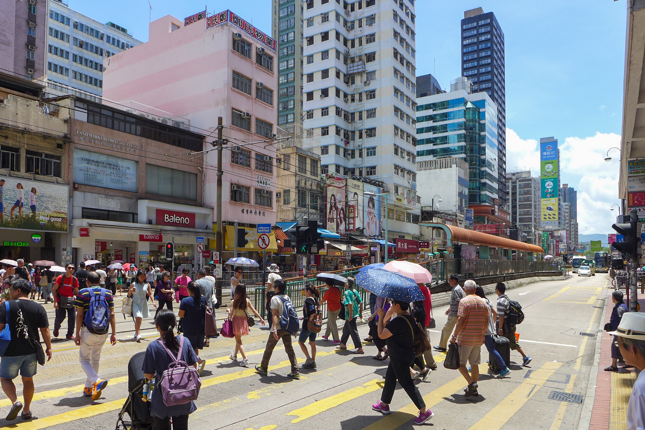 Castle Peak Road Yuen Long Section